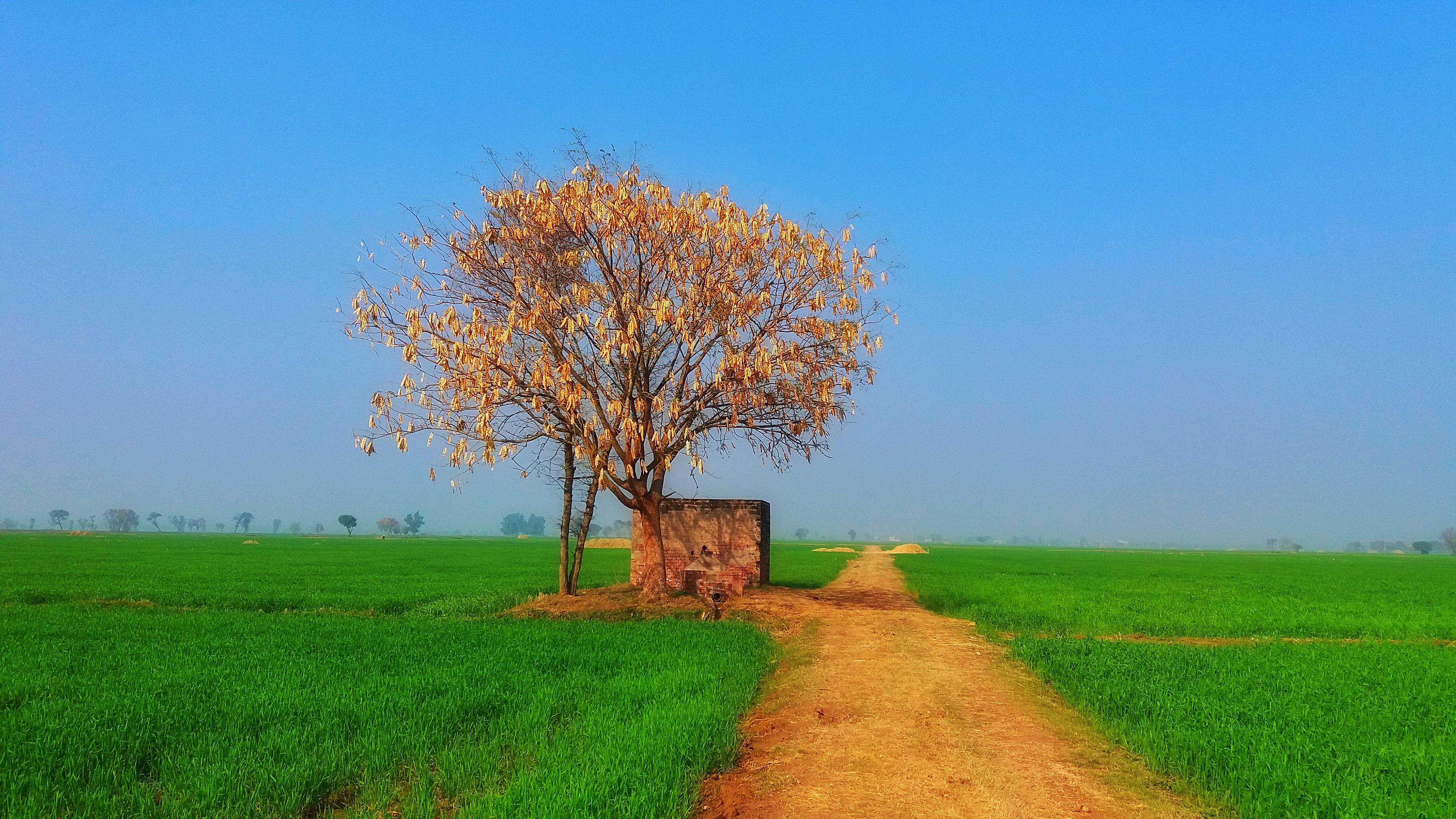 Bhureke,pasrur,sialkot,punjab,pakistan,ibneadam